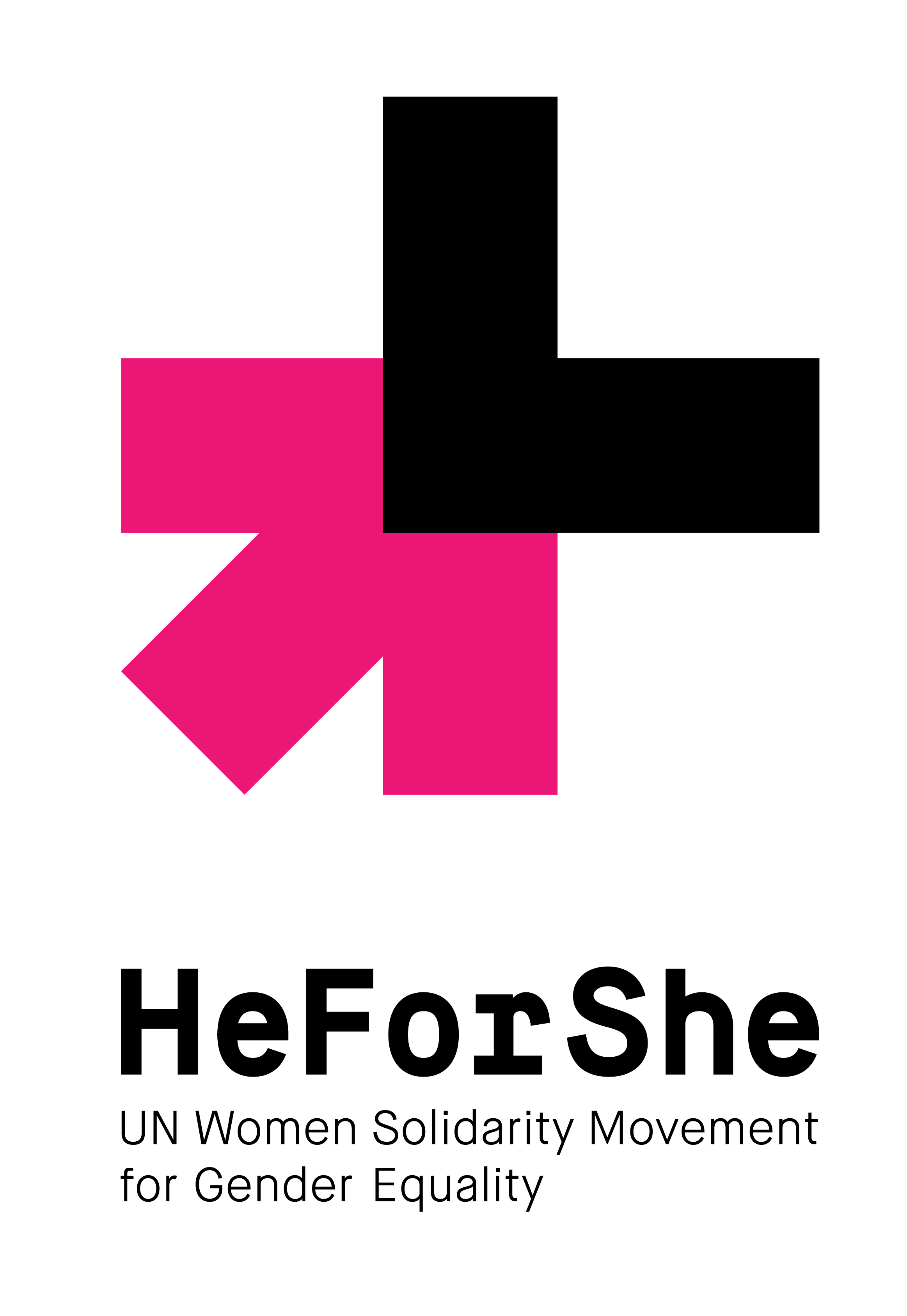 HeForShe campaign logo badge with tagline